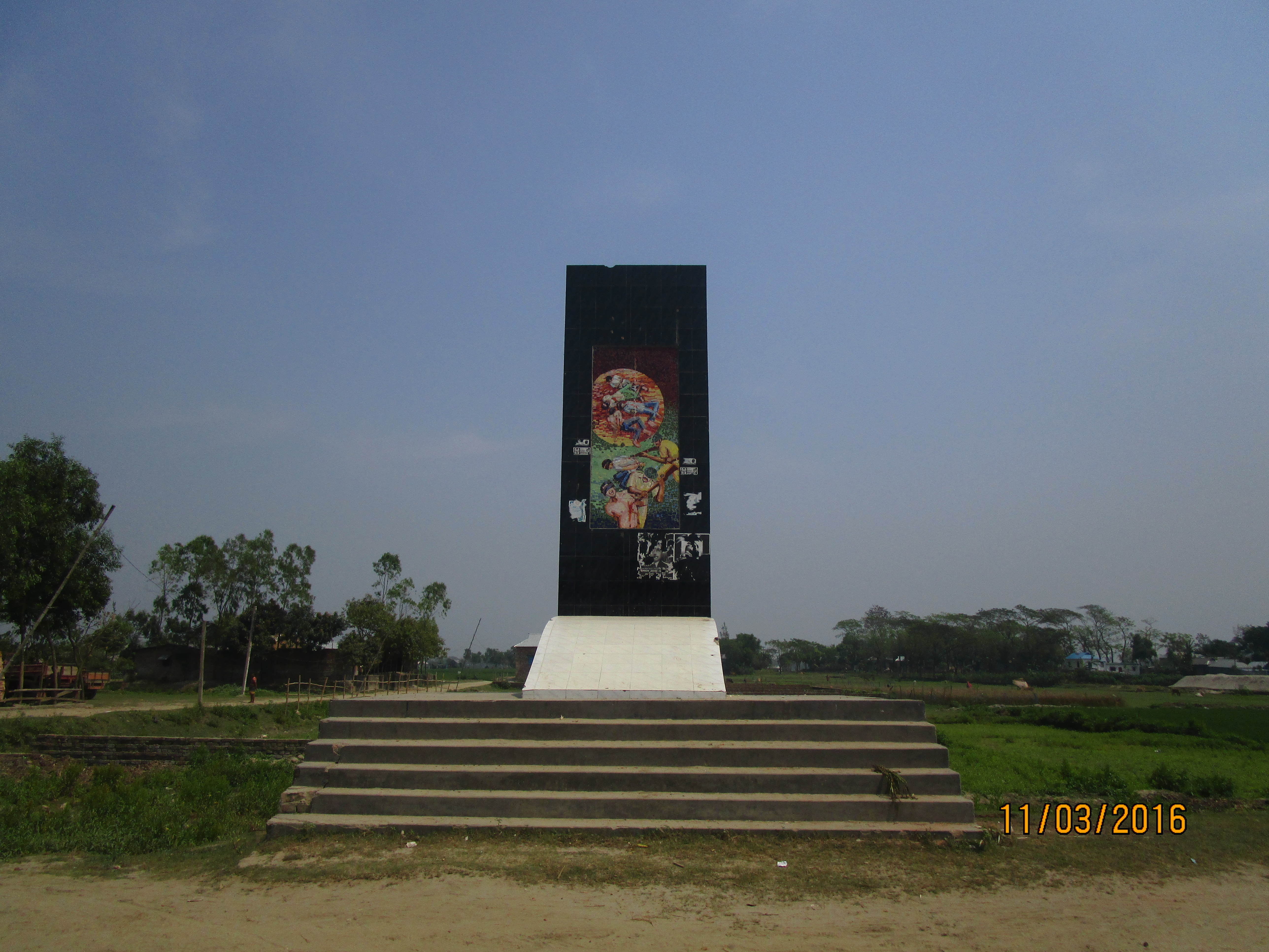 Shaheed Monument at Gafargaon